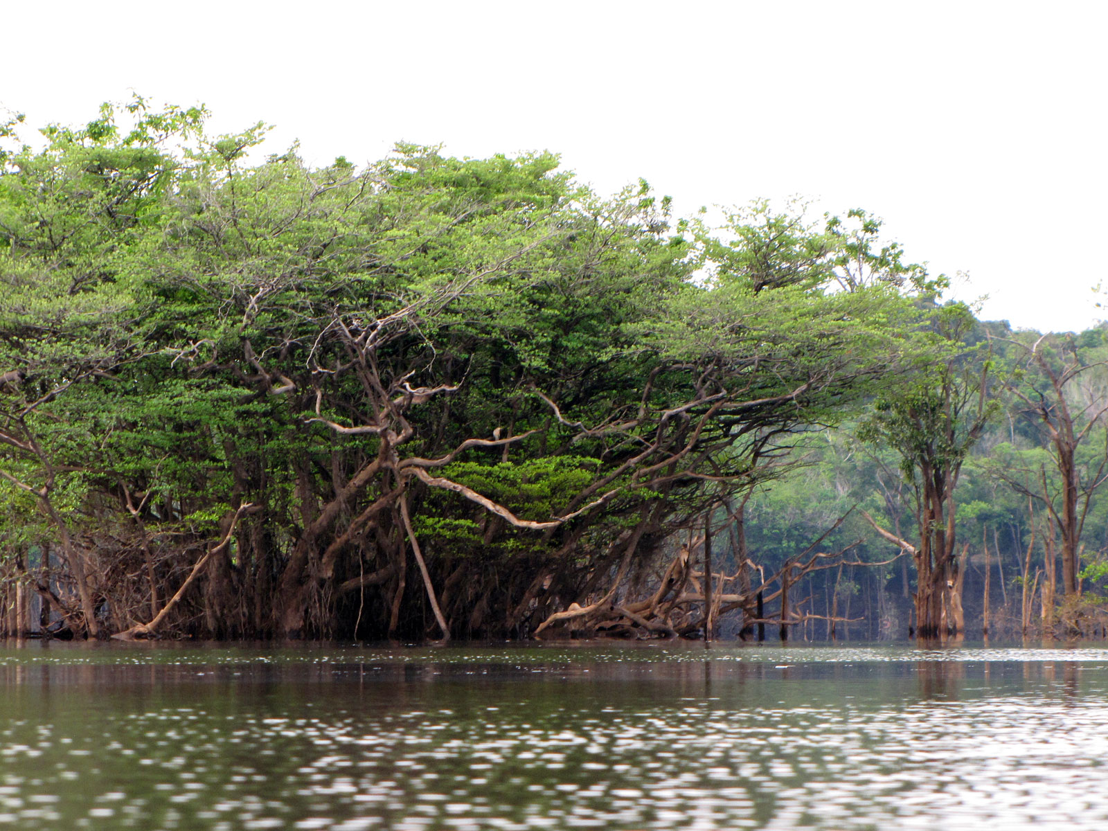 Rio Urubu, Amazonas, Brazil. 10 September 2010.